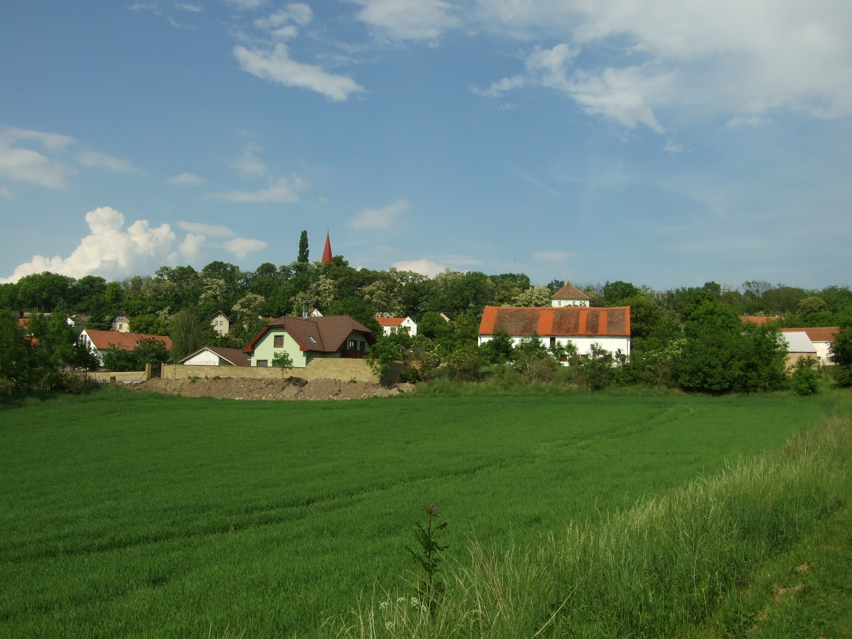 Town of Chržín and its surrounding nature in Central Bohemian region, CZhelp